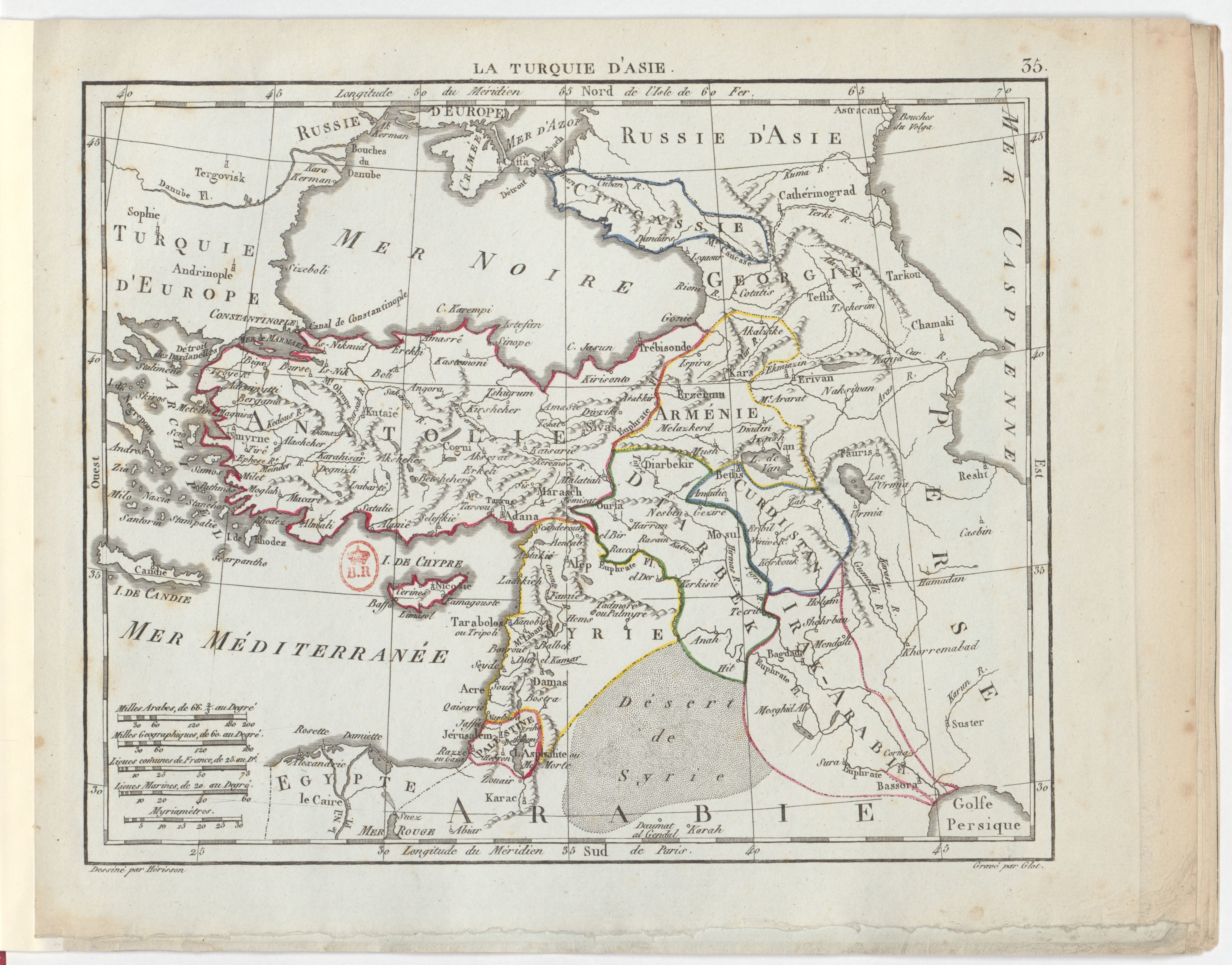 Map of the Ottoman Empire in 1806 with Armenia, Kurdistan, Palestine, etc. From Atlas portatif contenant la géographie universelle ancienne et moderne, Paris, Desray, 1806.